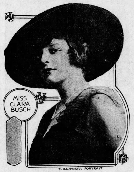 Clara Hazel Busch